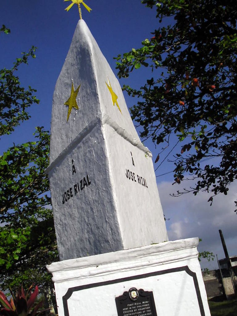 Daet's Rizal monument, the first in the Philippines.